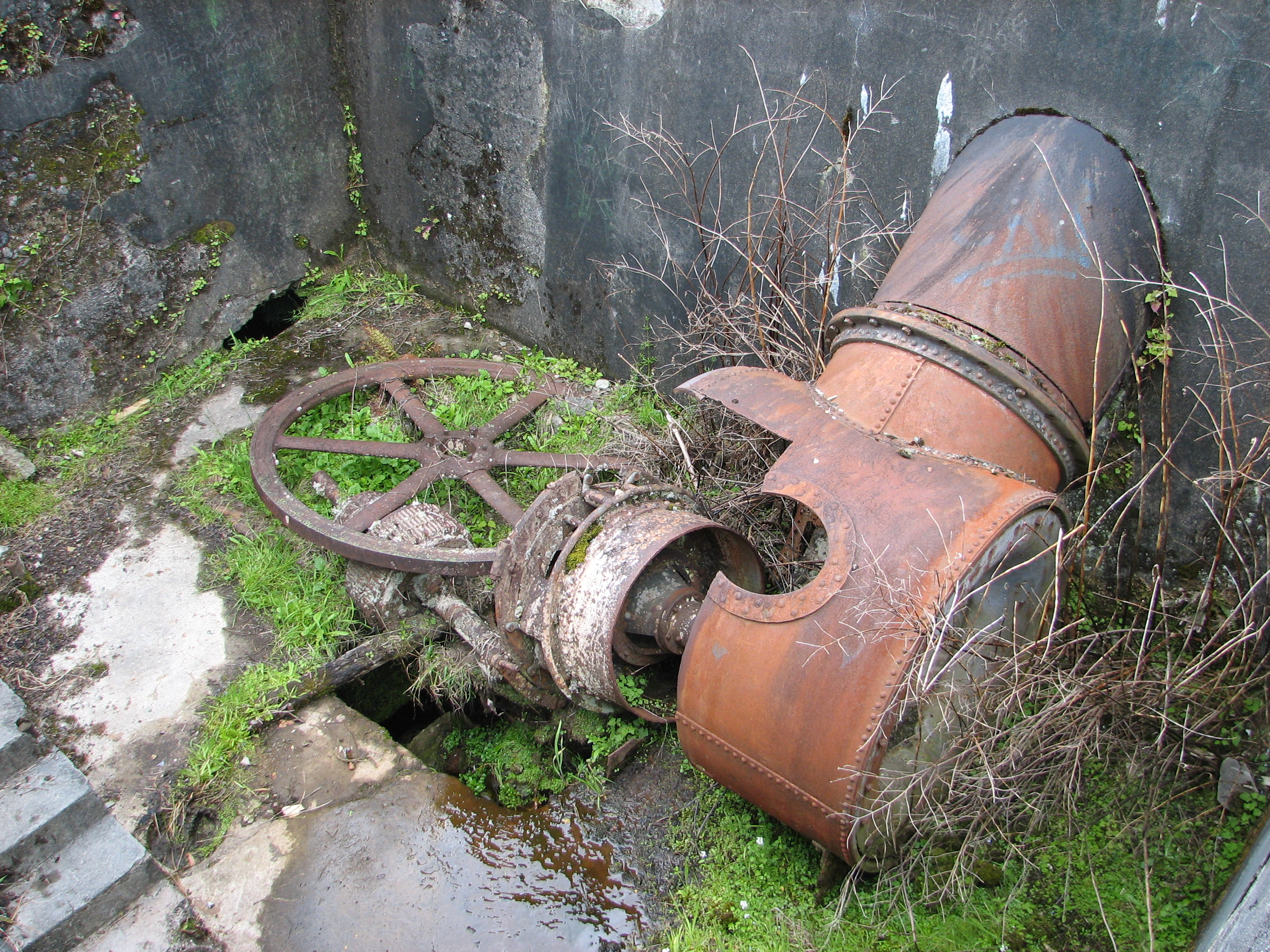 Ruins of the Reefton Power Station turbine room.